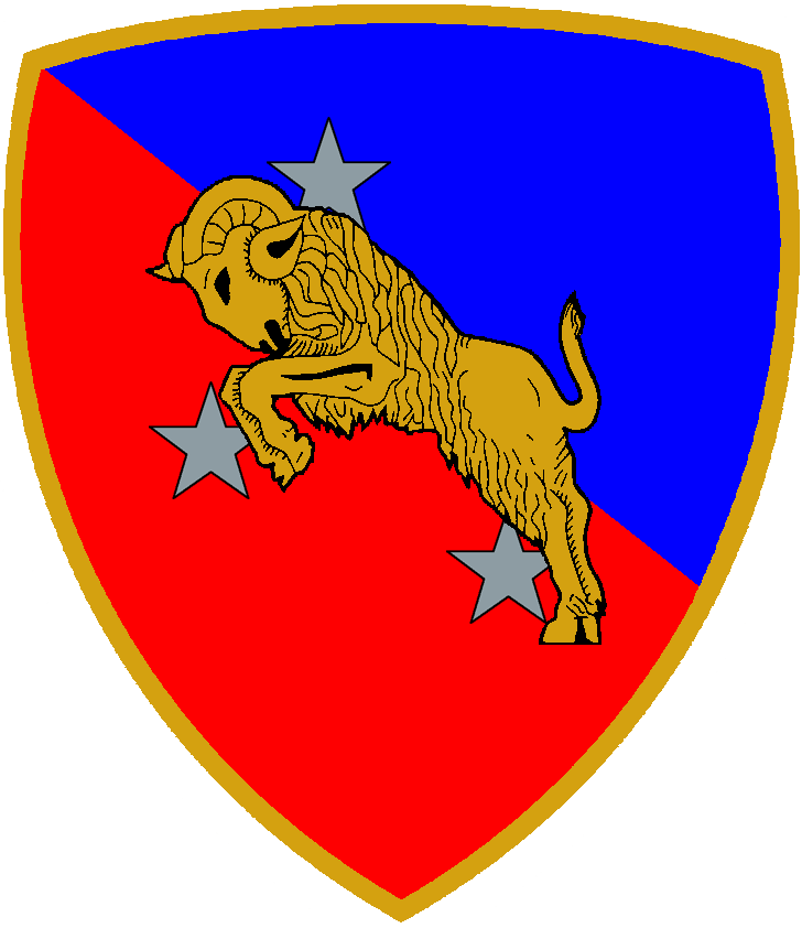 Coat of Arms of the Italian Army Armoured Brigade Mameli after 1986